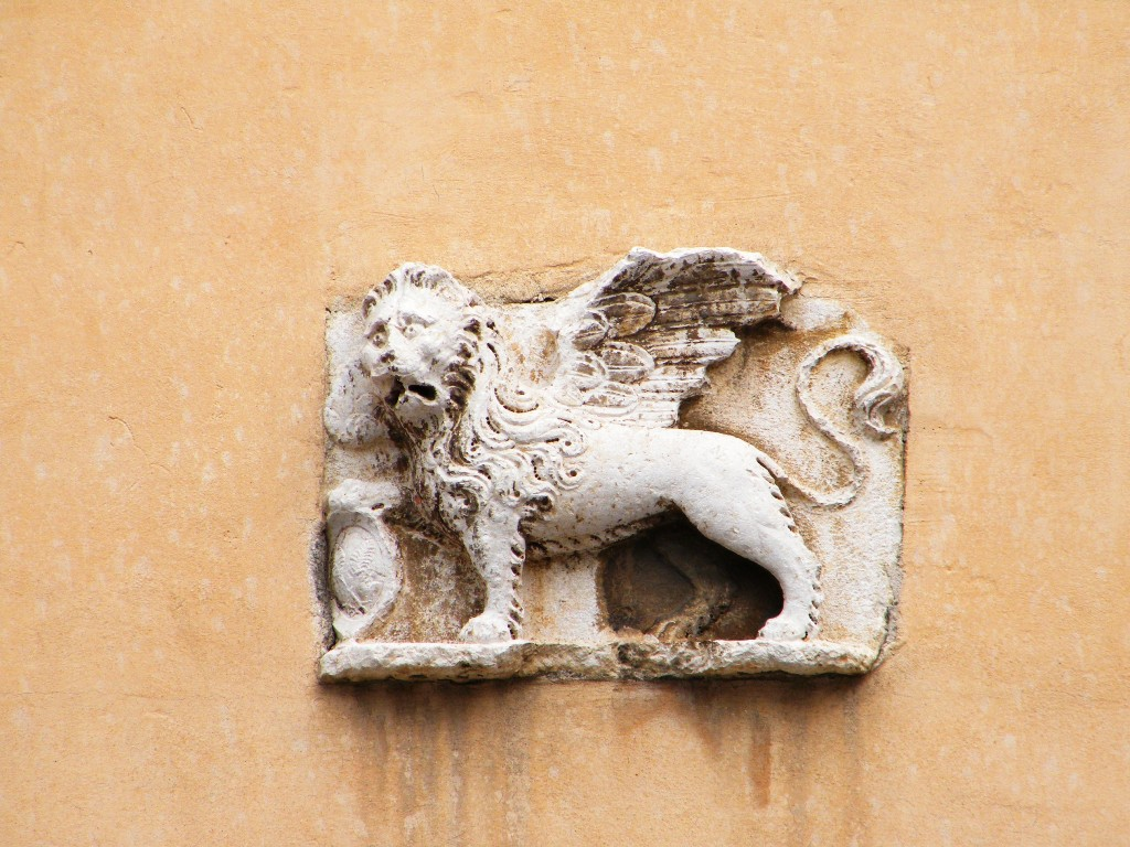 Lion of St Mark. Castione della Presolana